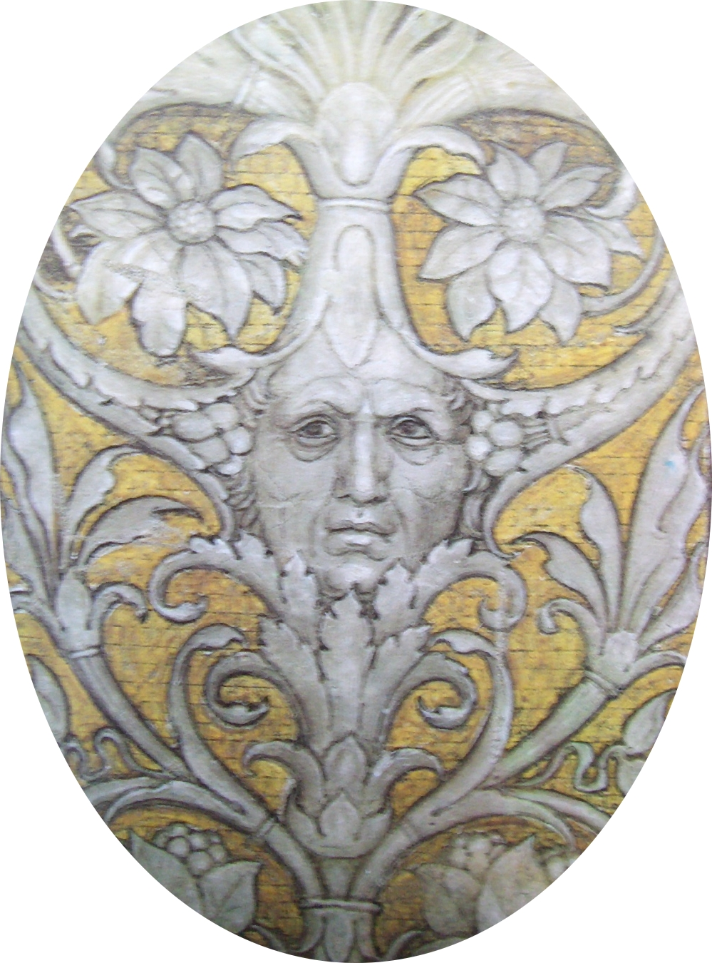 Self-portrait of Mantegna